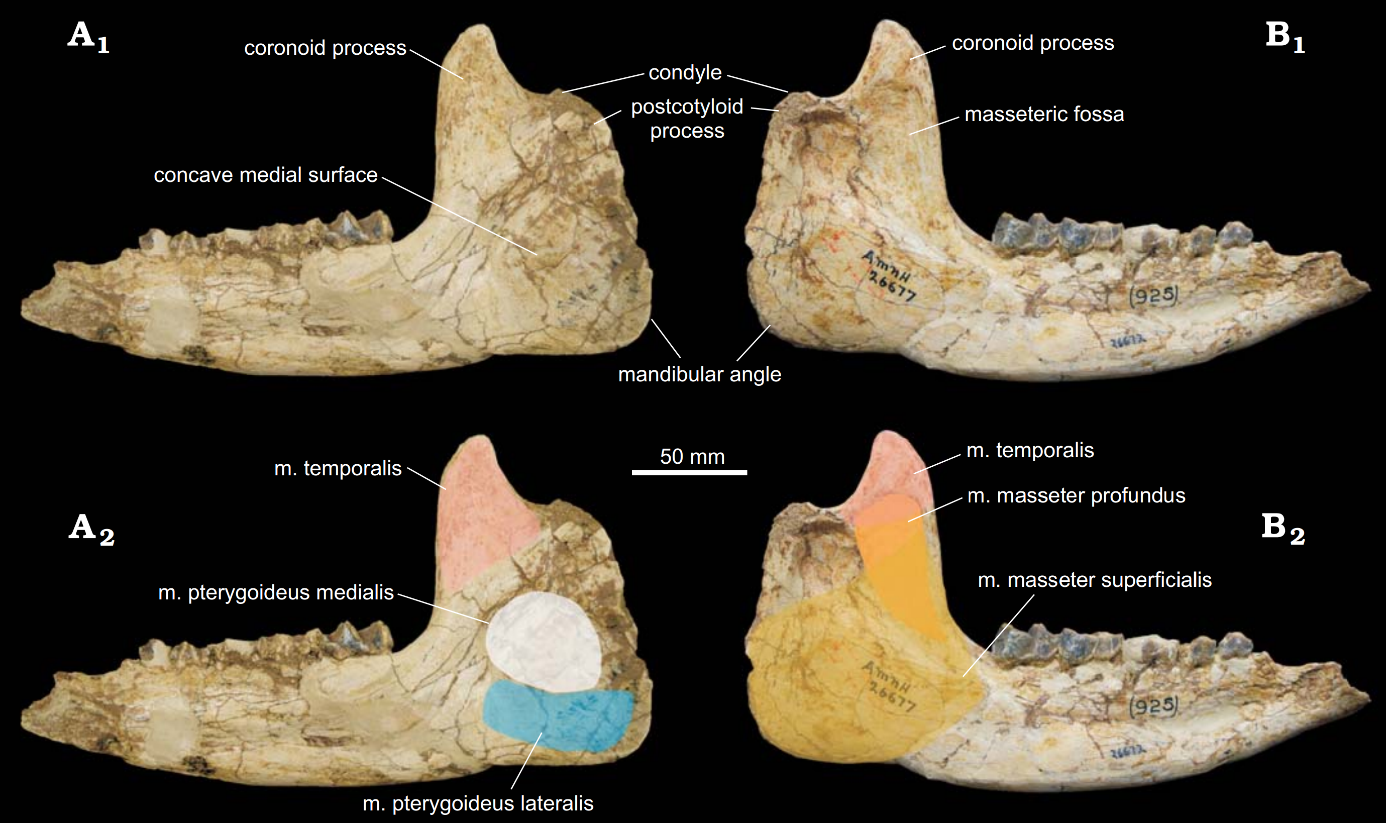 Pappaceras, mandible of Pappaceras meiomenus (AMNH 26677) with different topographic landmarkers for muscle reconstruction; Arshanto Formation, Inner Mongolia (originally described by Lucas et al. 1981 as mandible of Pappaceras minuta from Irdin Manha Formation, Inner Mongolia: Spencer G. Lucas, Robert M. Schoch and Earl Manning: The Systematics of Forstercooperia, a Middle to Late Eocene Hyracodontid (Perissodactyla: Rhinocerotoidea) from Asia and Western North America. Journal of Paleontology 55 (4), 1981, pp. 826–841 (p. 829))